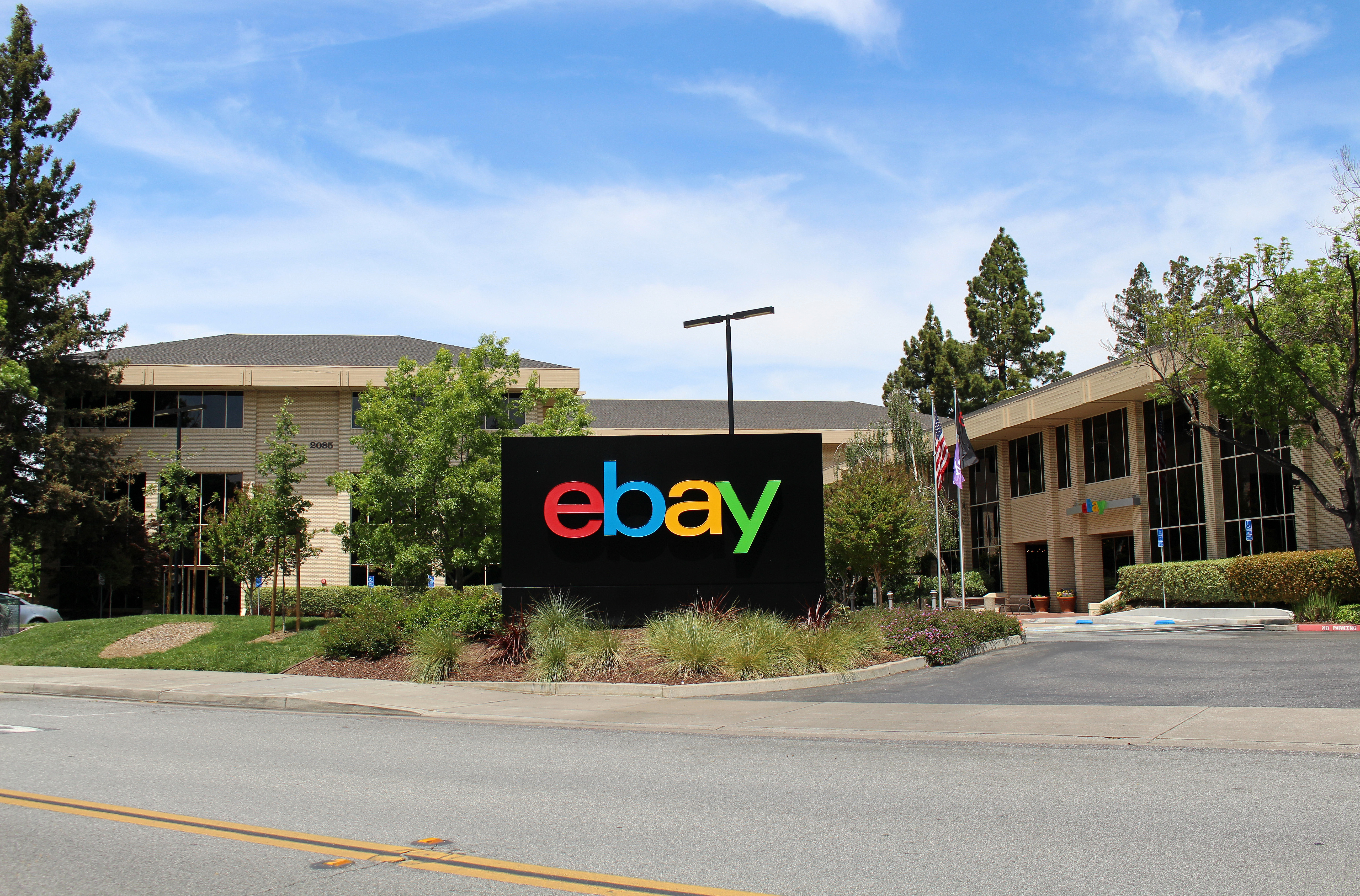 eBay headquarters in San Jose, California. Photographed by user Coolcaesar on May 6, 2018.